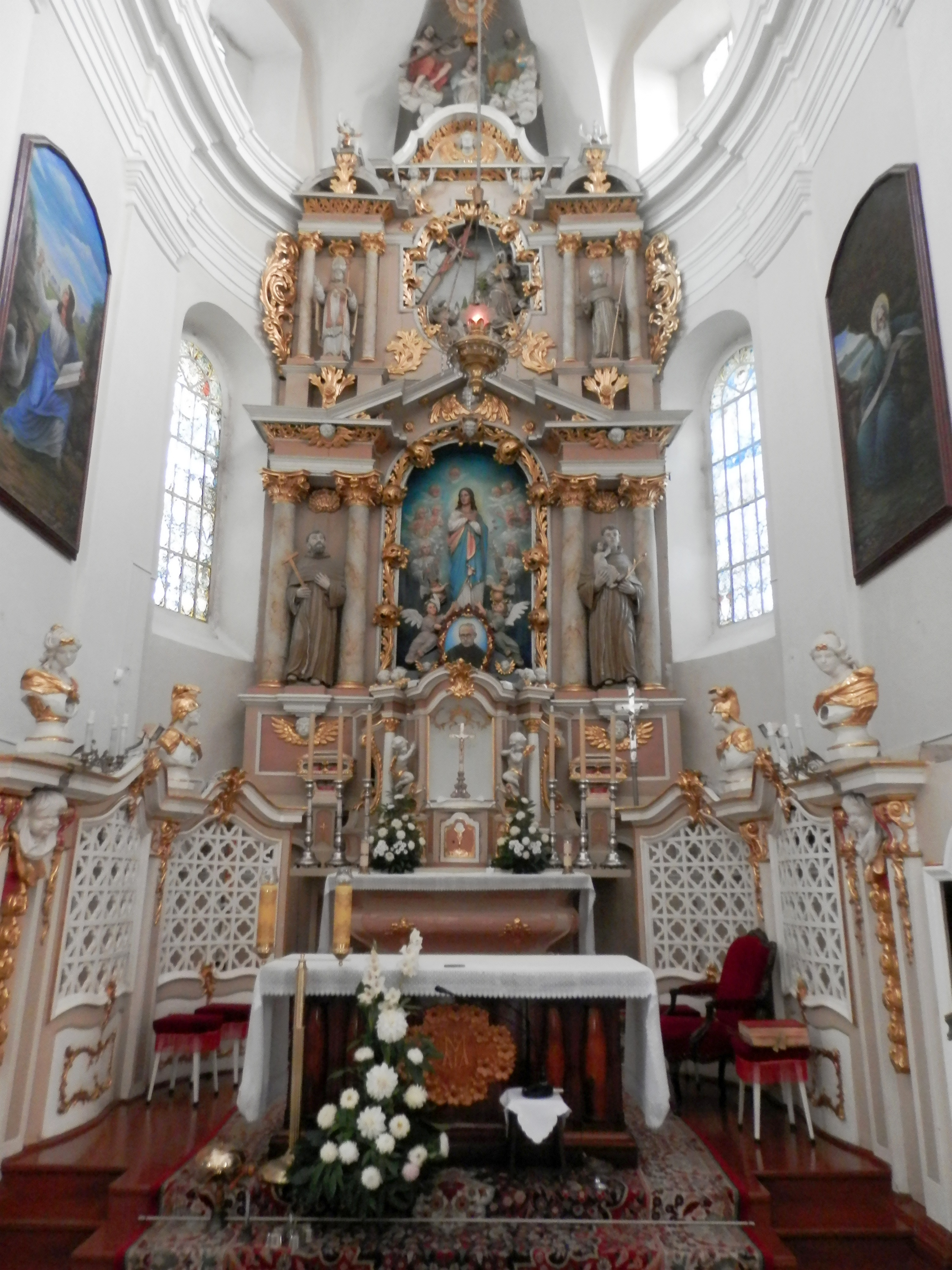 Franciscan church of St. Mary of the Angels in Hrodna